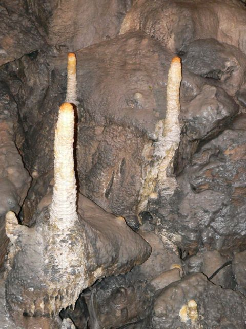 Poached Egg Stalagmites, Poole's Cavern. This bizarre set of formations is Poole’s Cavern’s one truly unique feature. The alarming looking ‘poached egg’ stalagmites are the result of human activity on the ground above the cave, combined with natural processes. Several decades of quarrying resulted in huge mounds of lime waste being dumped on the hillside. Rainwater passing through this fine material picks up an unusually large amount of lime. This results in massively accelerated calcite build-up, the largest features here having taken just 400 years to reach their present size.